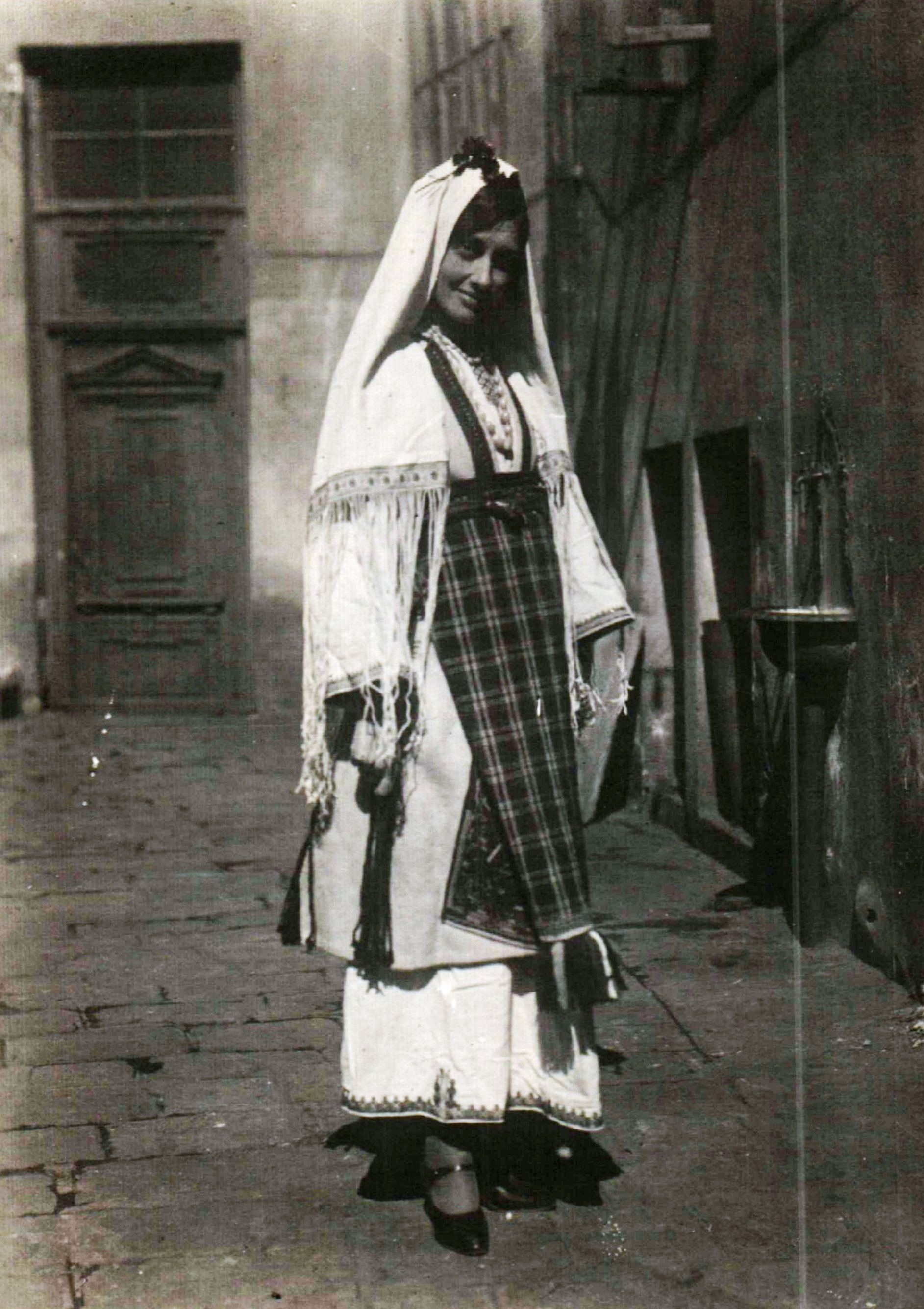 Bulgarian National costume from Yeniköy, Alexandroupoli region.